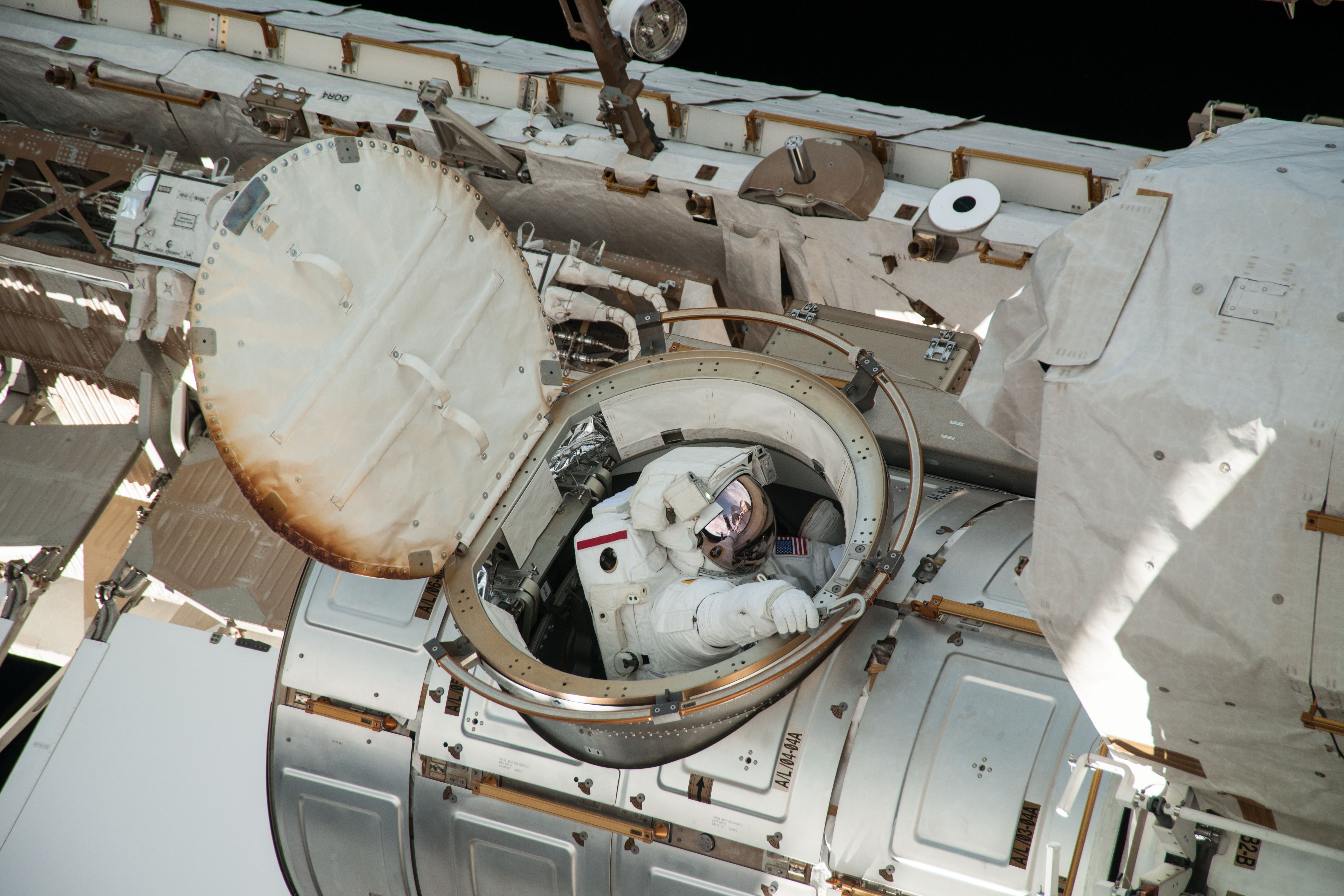 NASA astronaut Chris Cassidy, Expedition 36 flight engineer, exits the Quest airlock for a session of extravehicular activity (EVA) as work continues on the International Space Station. During the six-hour, seven-minute spacewalk, Cassidy and European Space Agency astronaut Luca Parmitano (out of frame), flight engineer, prepared the space station for a new Russian module and performed additional installations on the station's backbone.